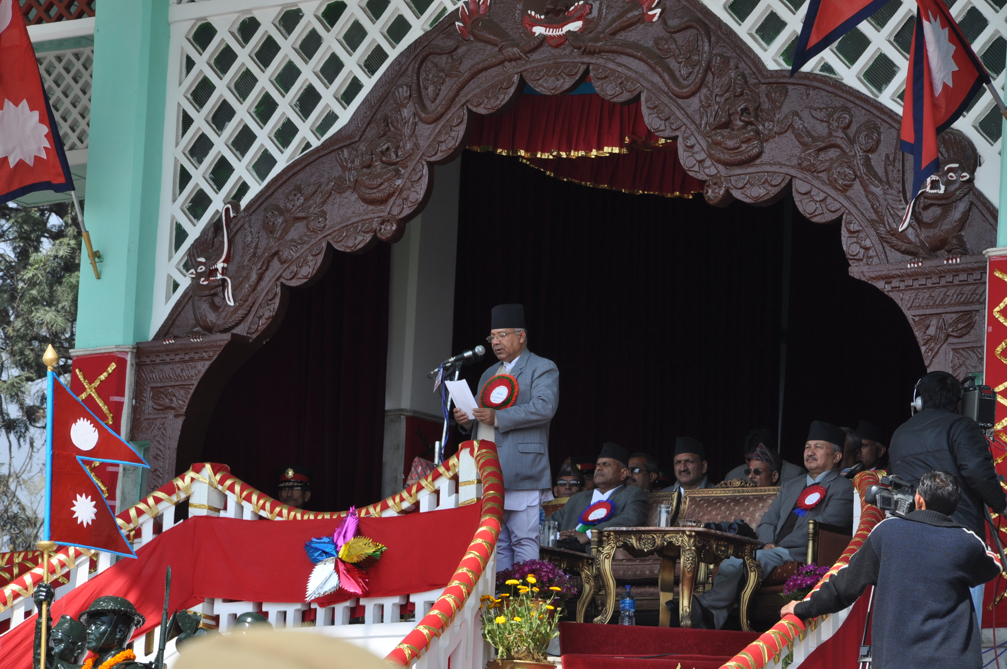 Prime- minister of Nepal Madhav Kumar Neepal in Sainik-Manch